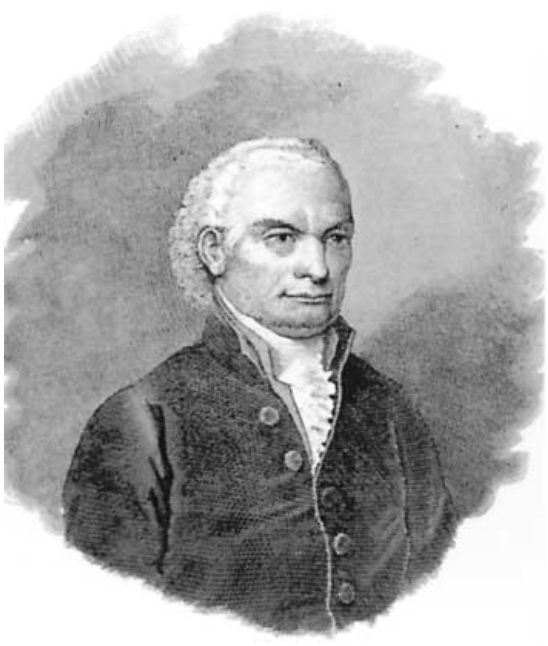 Domenico Cotugno (1736-1822), Italian physician, who discovered the perilymph in the inner ear